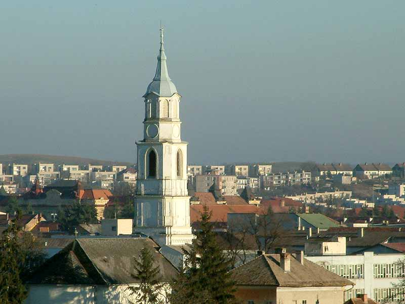 Prewiev of the Slovak city Rimavská Sobota.